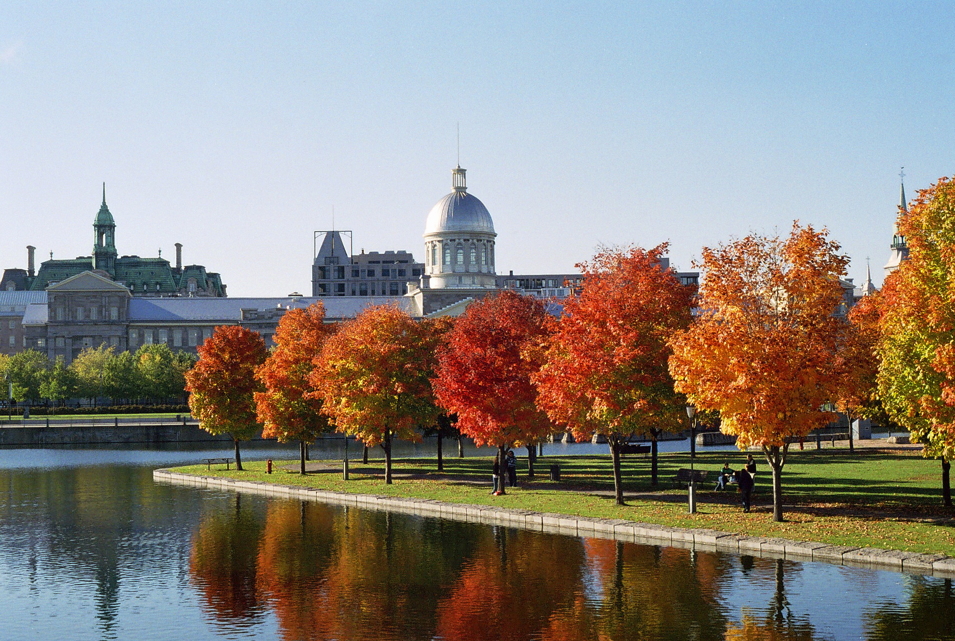 Foliage in the Parc du bassin Bonsecours and dome of the Marché Bonsecours, Montréal, Quebec, Canada.